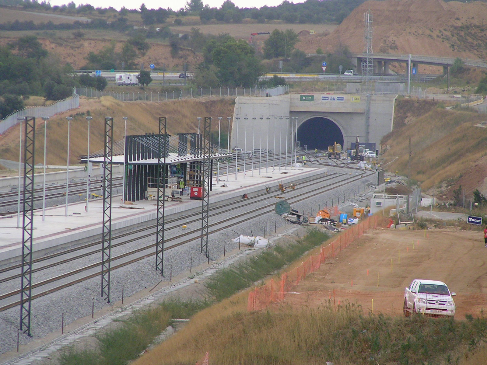 Figueres-Vilafant station under construction on the LGV Perpignan–Figueres high-speed line, 2 kilometres west of Figueres centre. Starting on 2010-12-19 double-decker SNCF TGV Duplex trains operate directly from here to Paris-Gare de Lyon. At Figueres-Vilafant where a cross-platform change is provided onto a local variable gauge train into Barcelona.